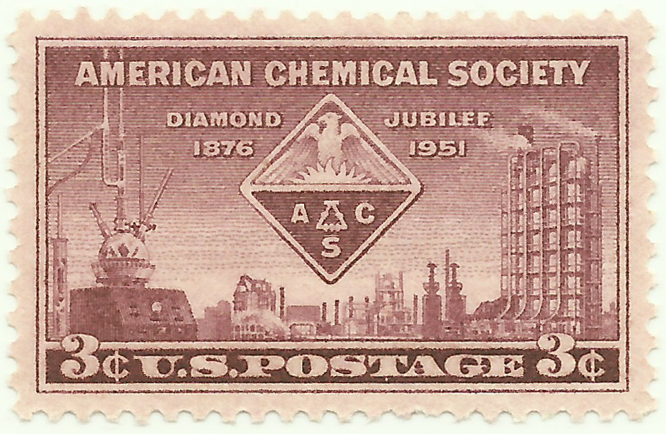 Image illustrates American Chemical Society logo including chemical instruments being an alembic, hydrometer, and ionization indicator.